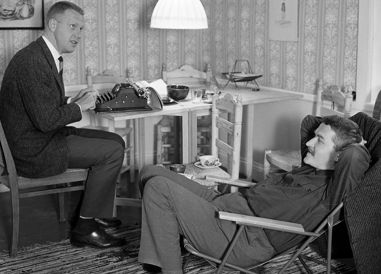 FOTOGRAFIHasse och Tage skriver tillsammans i sin skrivarstuga i Vitabergsparken.. 1961-1961FOTOGRAF: Tingvall. AftonbladetBILDNUMMER: AB 1171Stadsmuseet i Stockholm